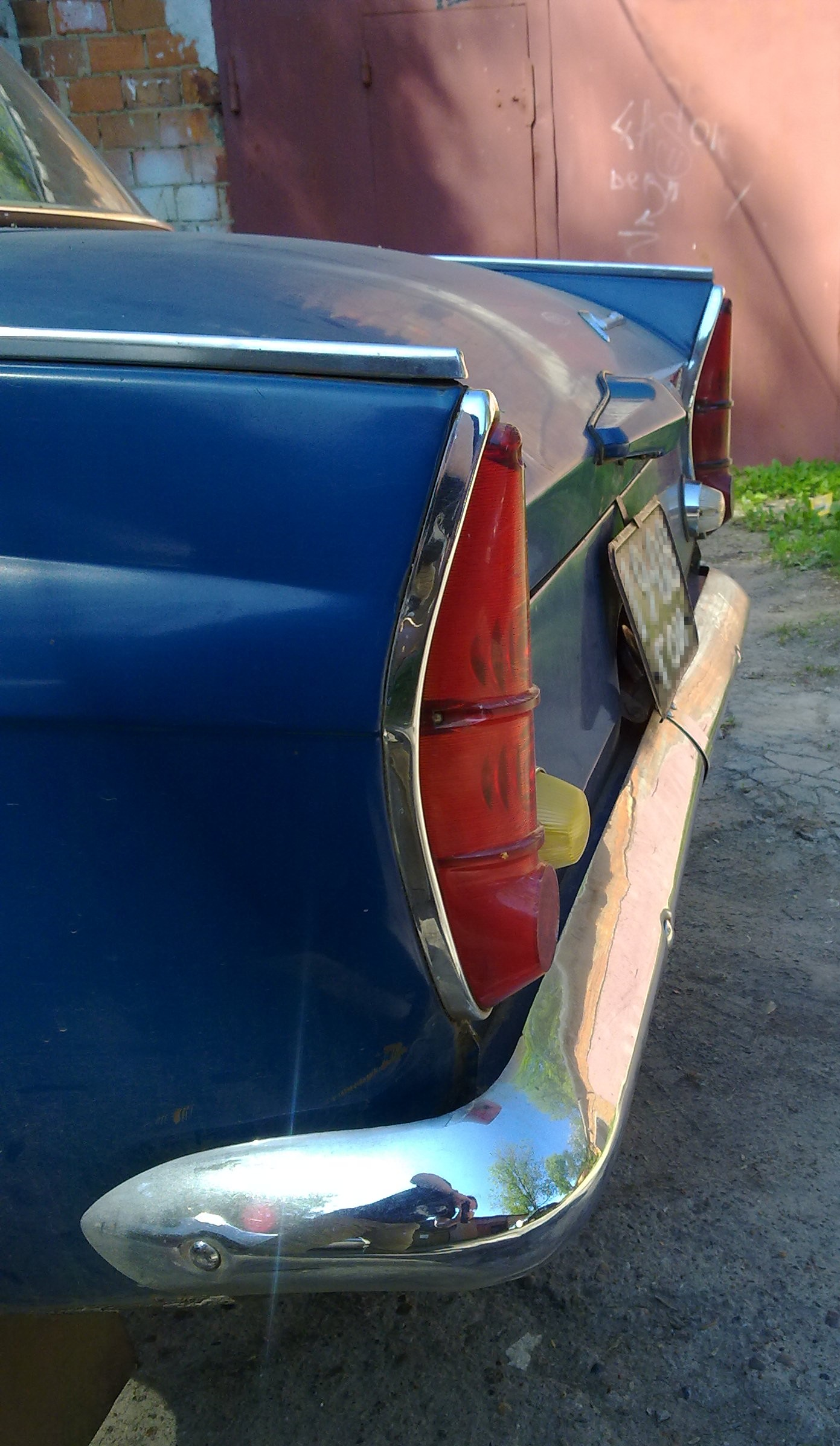 1966 Moskvitch-408 tailights